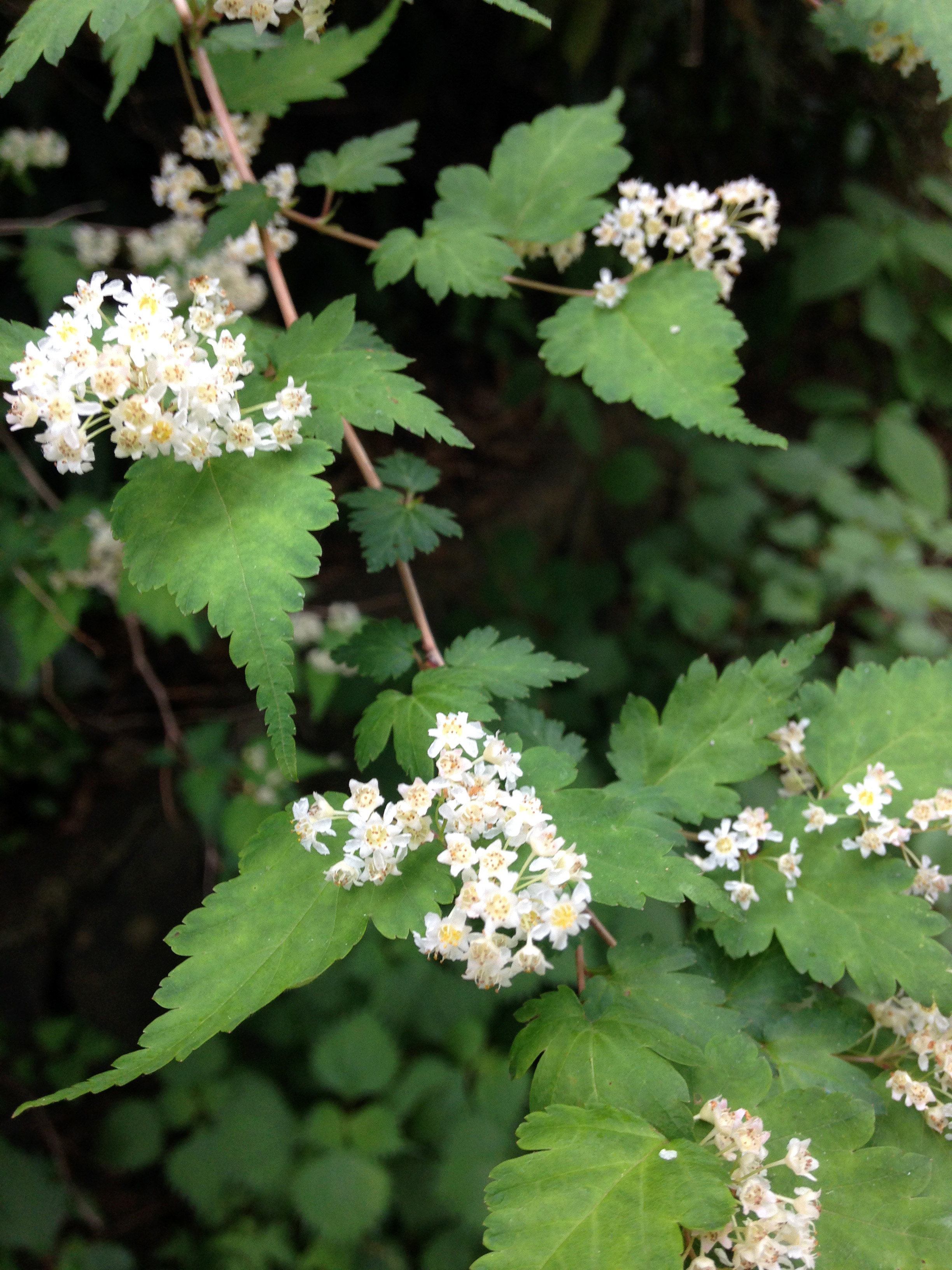 Neillia incisa, deciduous forest at summit of Mount Takao, Hachiōji, Tokyo, Japan.